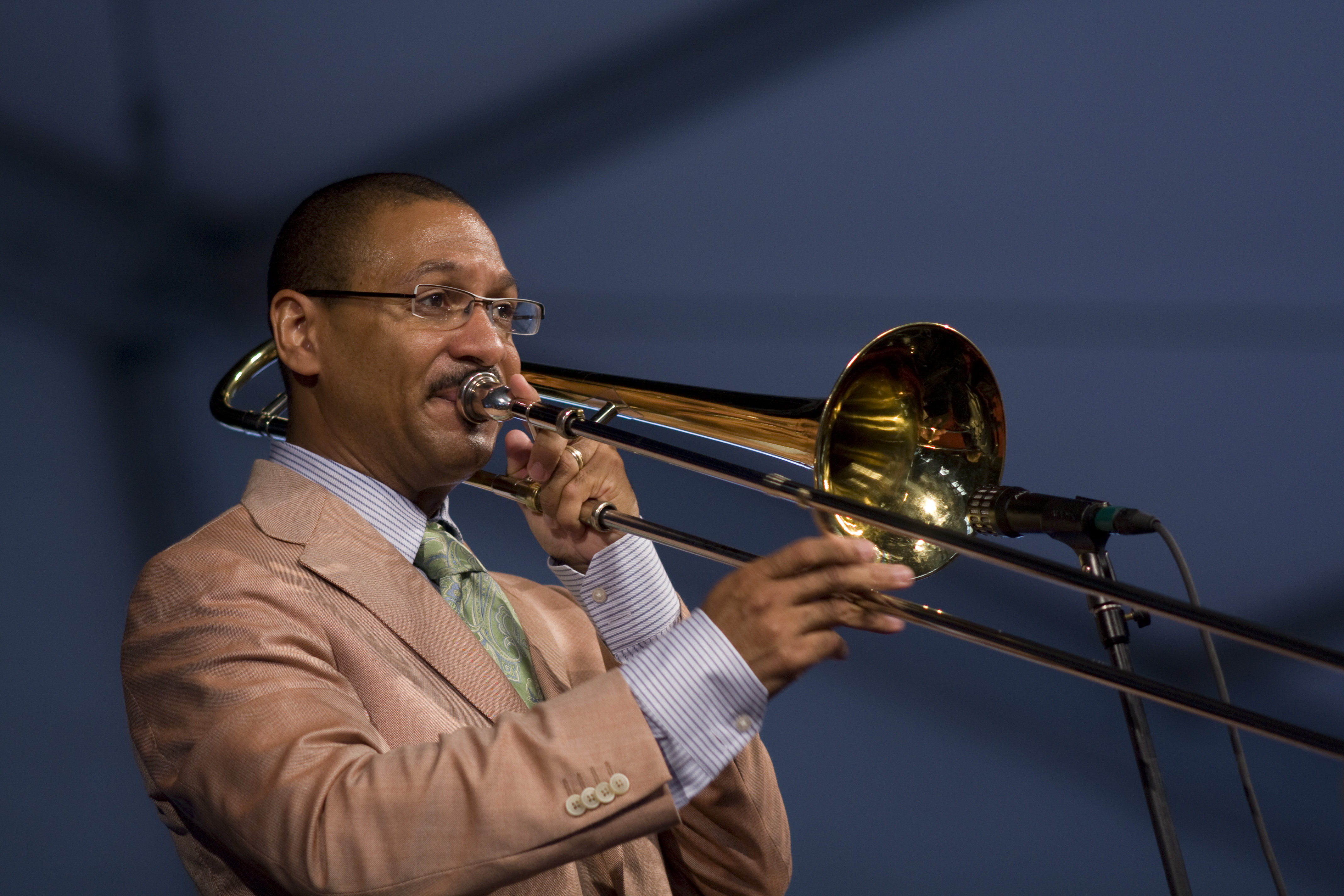 Delfeayo Marsalis playing with the Uptown Jazz Orchestra at the WWOZ Jazz Stage, New Orleans Jazz & Heritage Festival.